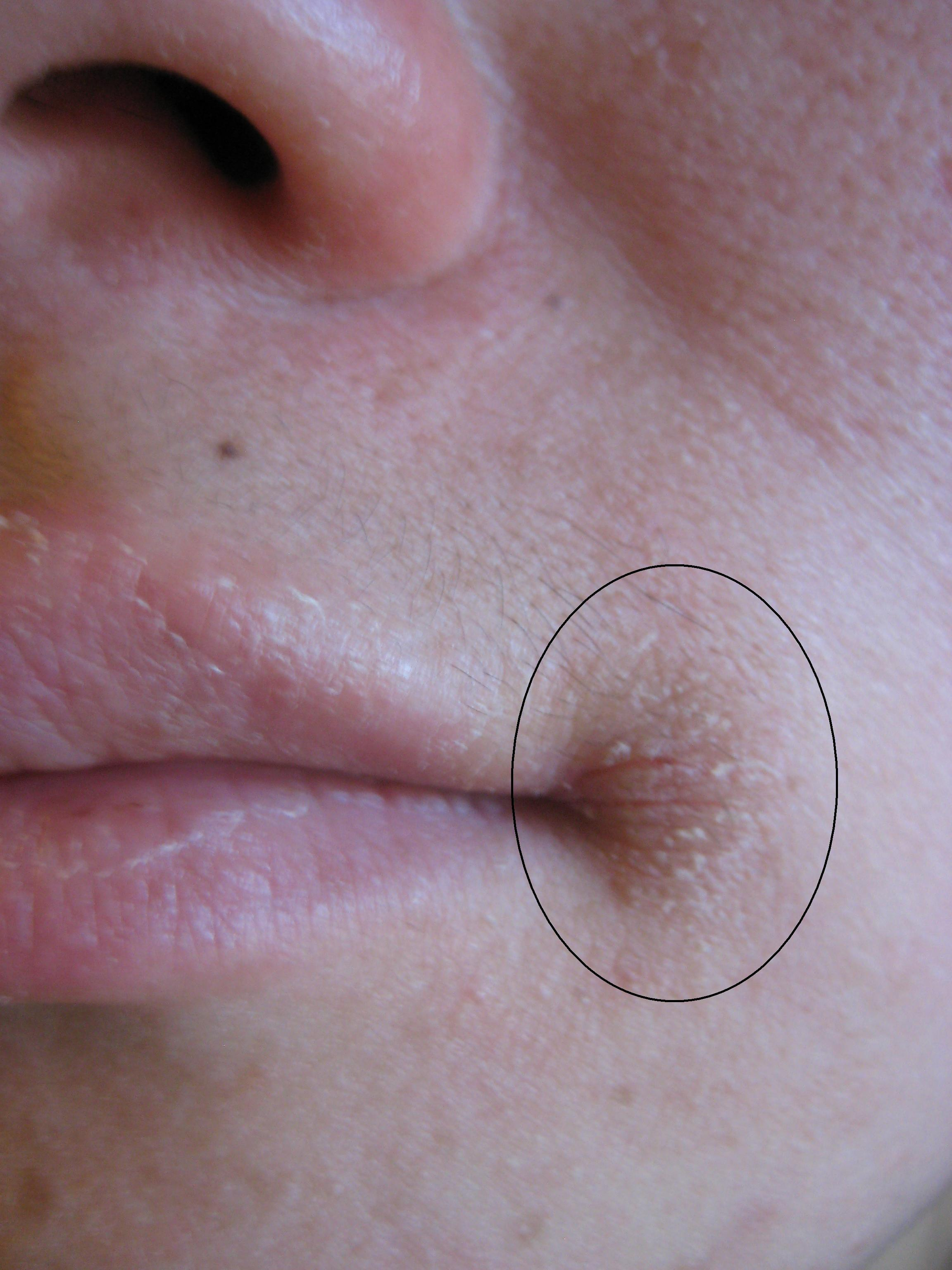 Angular cheilitis as marked by the oval